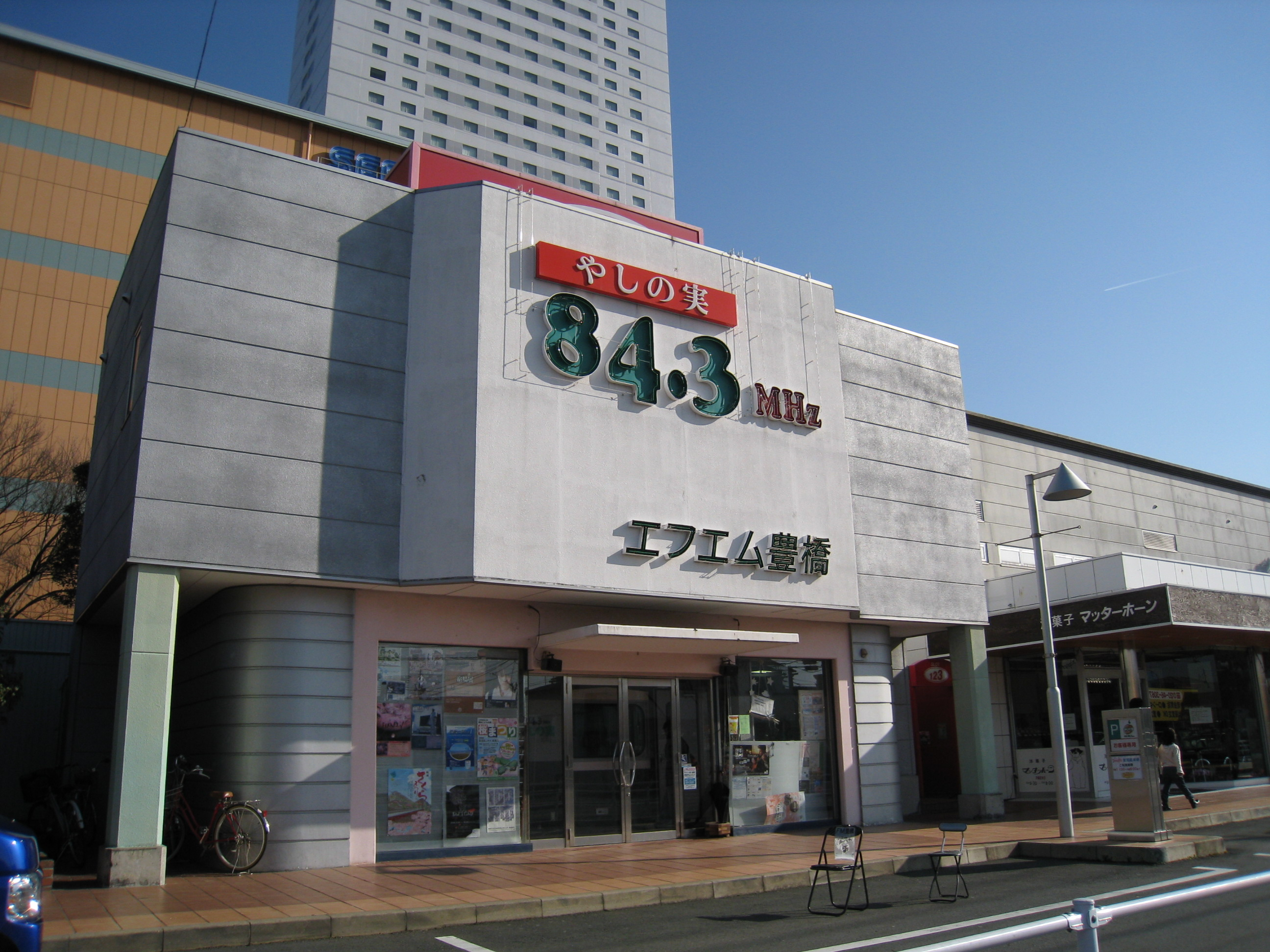 FM Toyohashi (エフエム豊橋), located at Fujisawacho, Toyohashi, Aichi, Japan